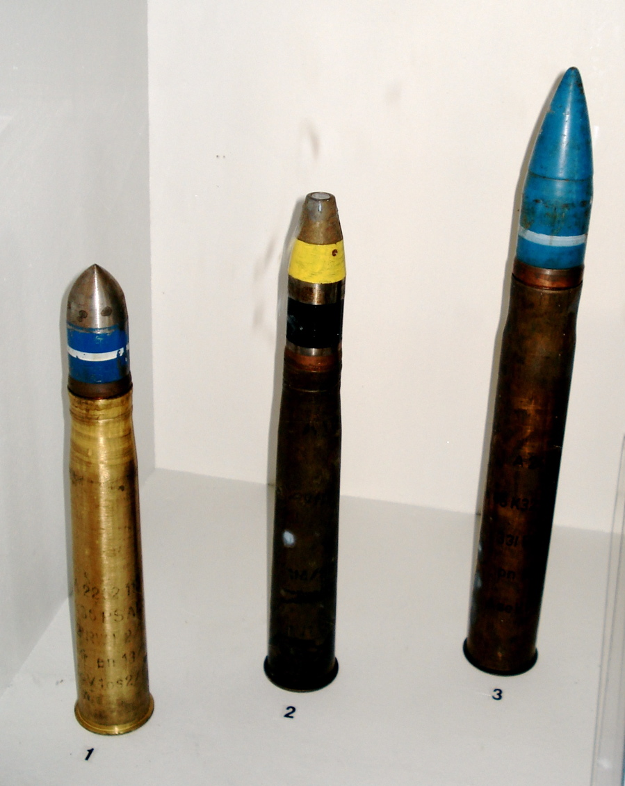 Anti-tank gun ammunition, displayed in Finnish Tank Museum (Panssarimuseo) in Parola. 1. 37 mm anti-tank round for German guns 3,7-cm-KwK 36 L/45 and 3,7-cm-PwK 36 L/45 2. 37 mm high explosive round for German German guns 3.7 cm KwK 36 and PaK 36 3. 45 mm anti-tank round for Soviet M1932 gun Photo taken on July 14, 2006. Source: Photo by me, User:Balcer.